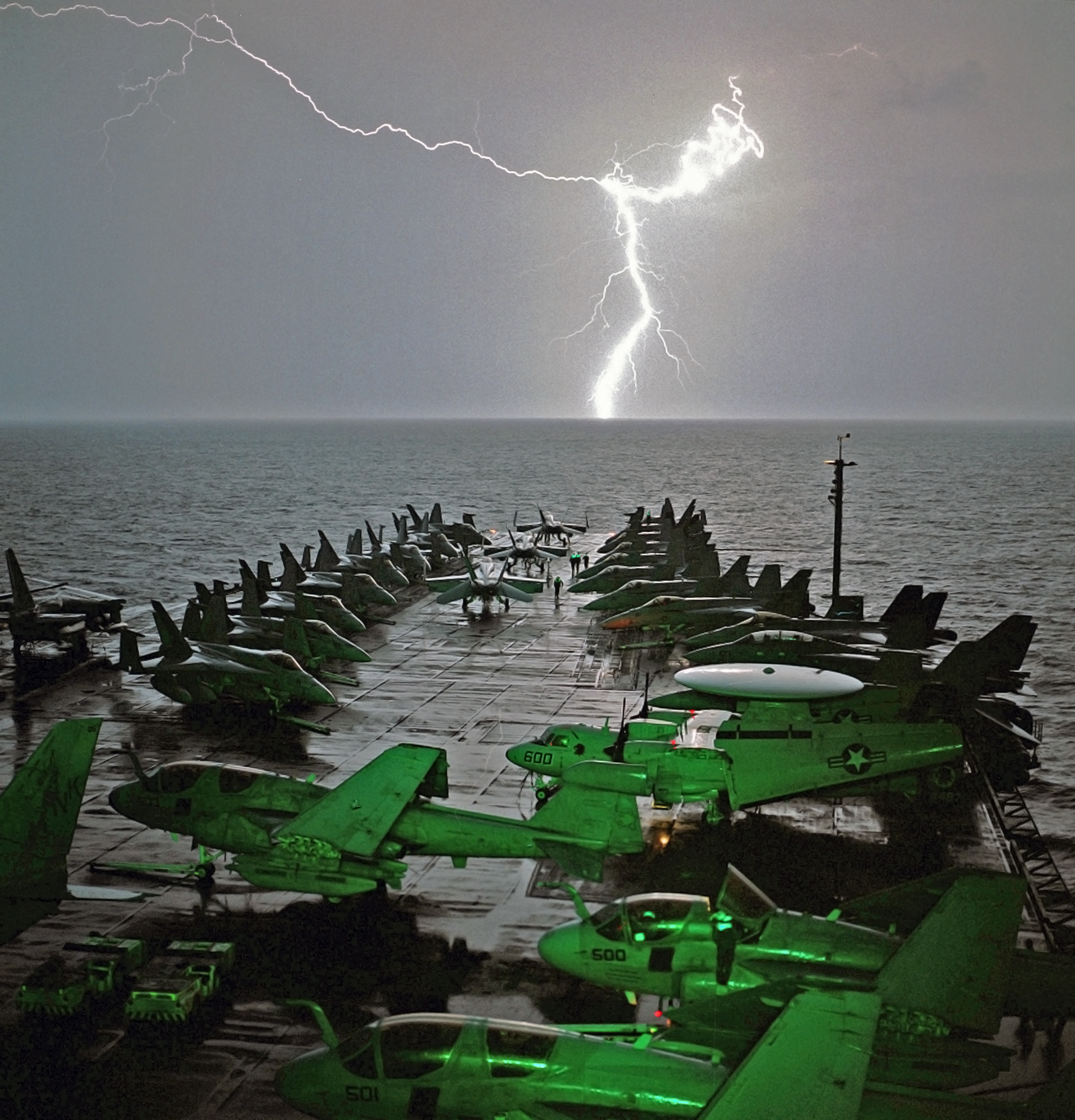 At sea aboard USS Abraham Lincoln (CVN 72) - Lightning strikes on the horizon light up the bow of the aircraft carrier during a storm in the Arabian Sea. Lincoln and Carrier Air Wing Fourteen (CVW-14) are on a regularly scheduled six-month deployment conducting combat missions in support of Operation Enduring Freedom and Southern Watch.